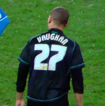 30/03/10 Cardiff V Leicester, Championship, Cardiff City Stadium, Cardiff, Wales